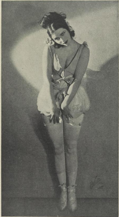 Corone Paynter, in "Hitchy Koo-1920", from a 1921 publication. Photograph by White Studio.